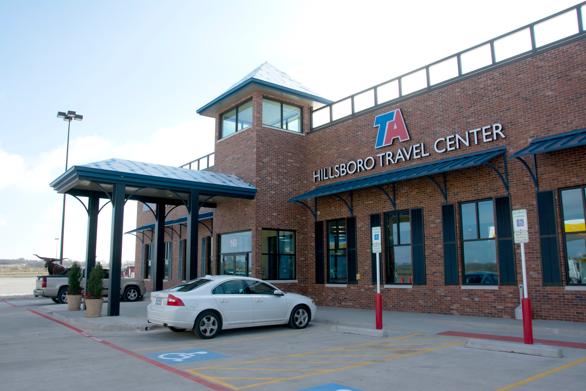 TravelCenters of America